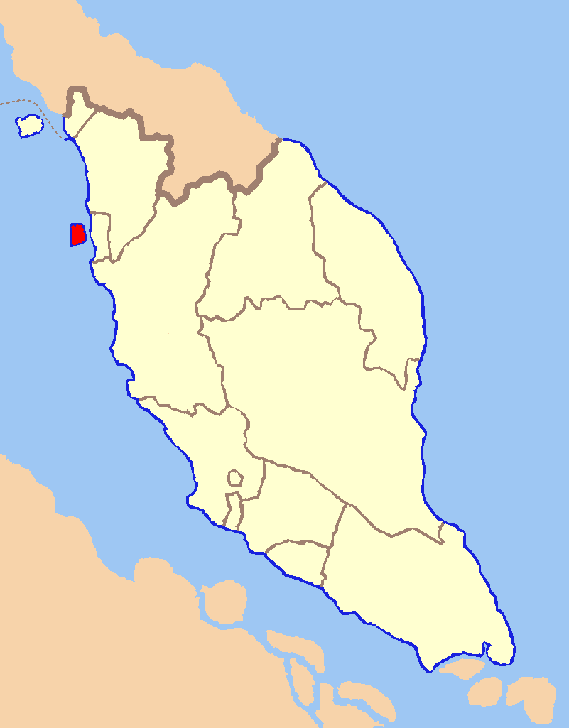 Map of Malaysia with Penang Island highlighted